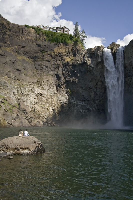 Author: Pavel Poliansky Description: Snoqualmie Falls. View from the edge of the plunge pool. August 2006. The Salish Lodge can be seen at the top of the image.